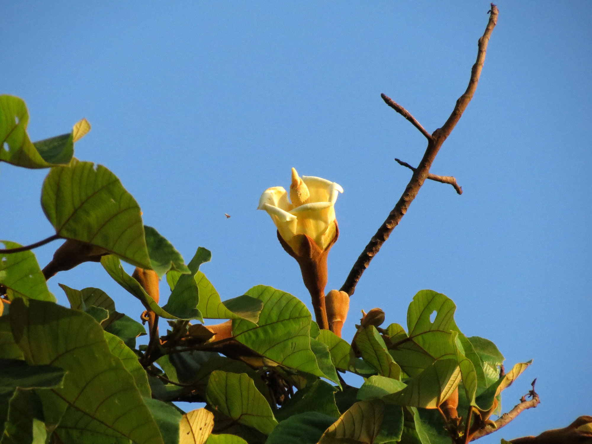 Ochroma pyramidale. Barro Colorado Island, Panama. 19 January 2012